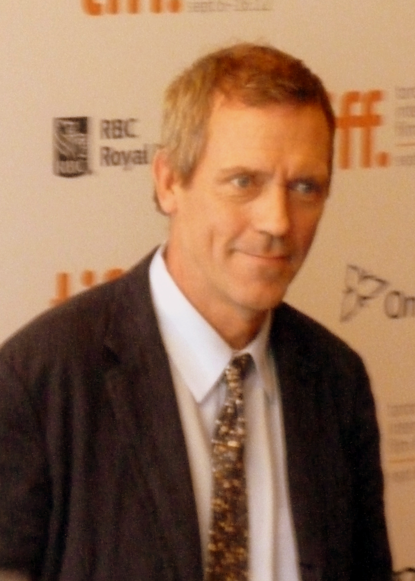 Hugh Laurie at the premiere of Mr Pip, Toronto Film Festival 2012